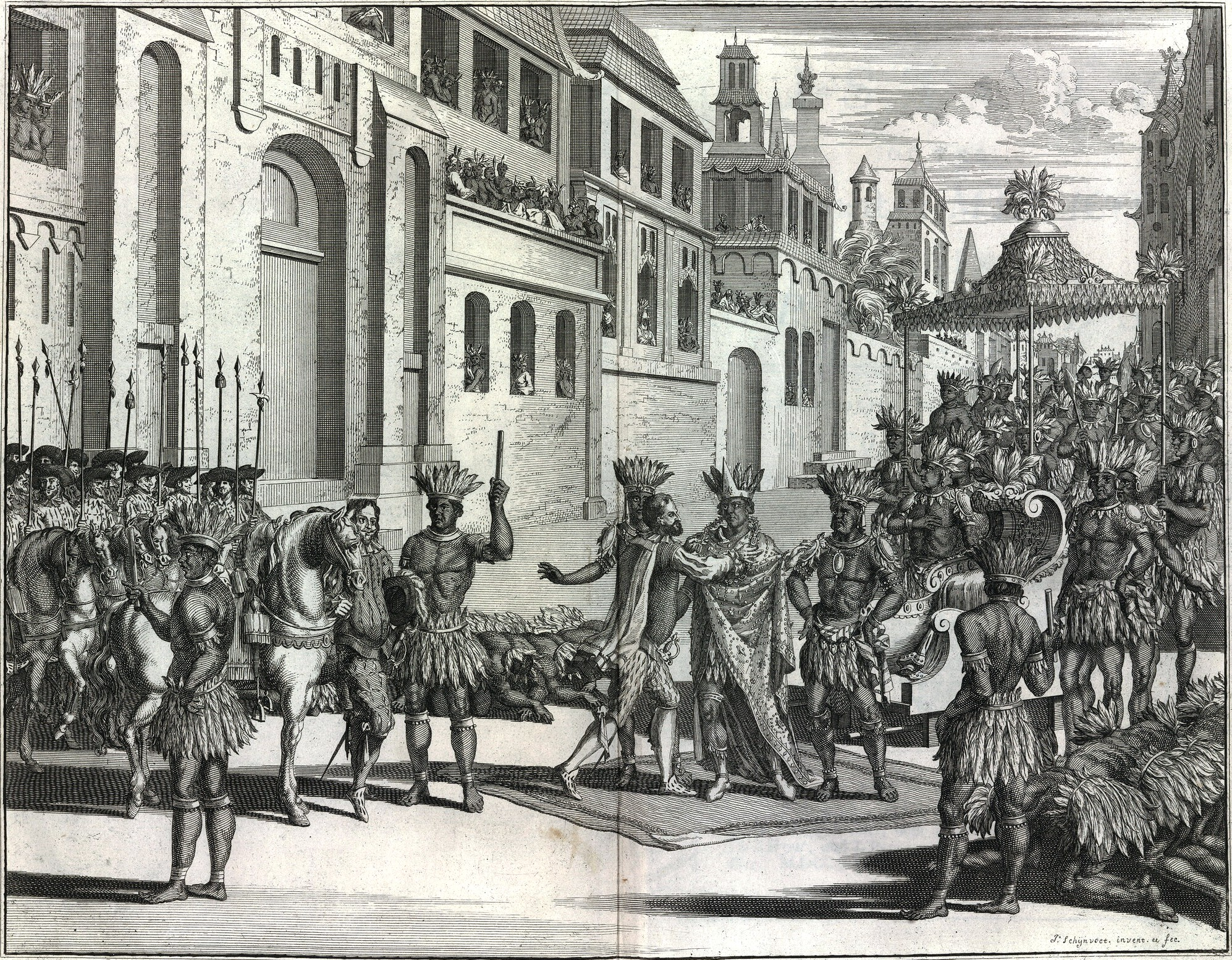 The history of the conquest of Mexico by the Spaniards / done into English from the original Spanish of Don Antonio de Solis